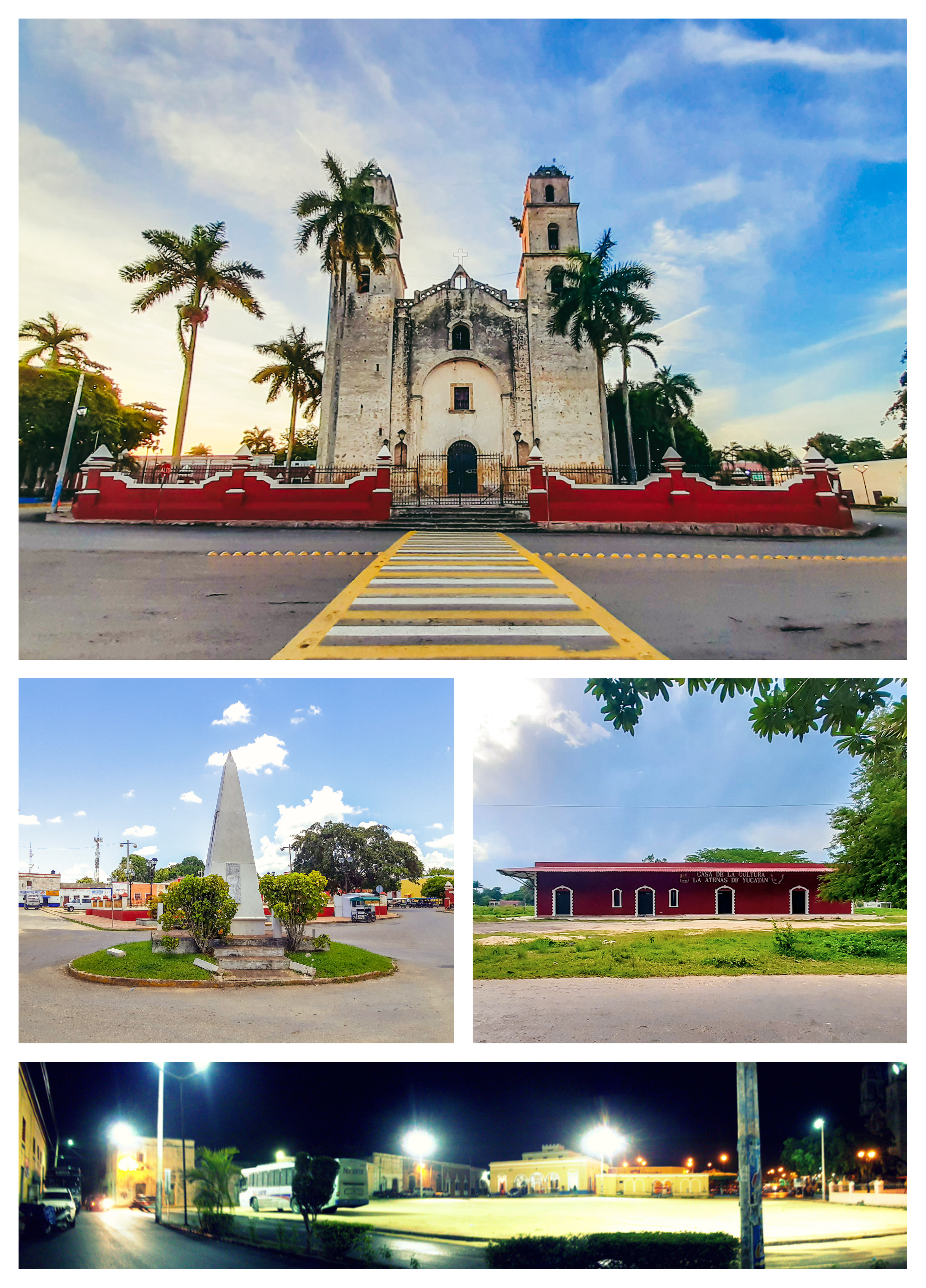 Espita collage.